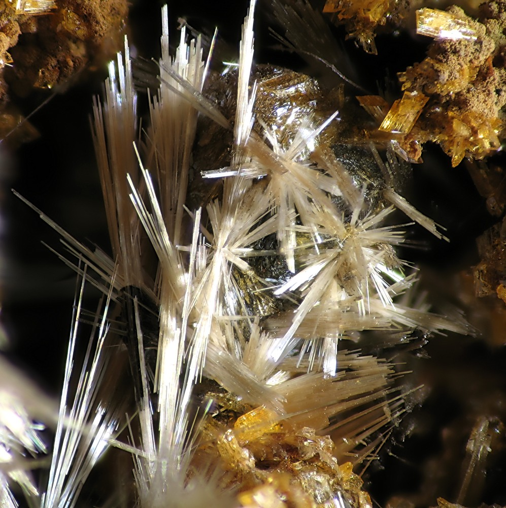 Strunzite Locality: Hagendorf South Pegmatite (Cornelia Mine; Hagendorf South Open Cut), Hagendorf, Waidhaus, Vohenstrauß, Oberpfälzer Wald, Upper Palatinate, Bavaria, Germany (Locality at ) Picture width 7 mm. Collection and photograph Christian Rewitzer